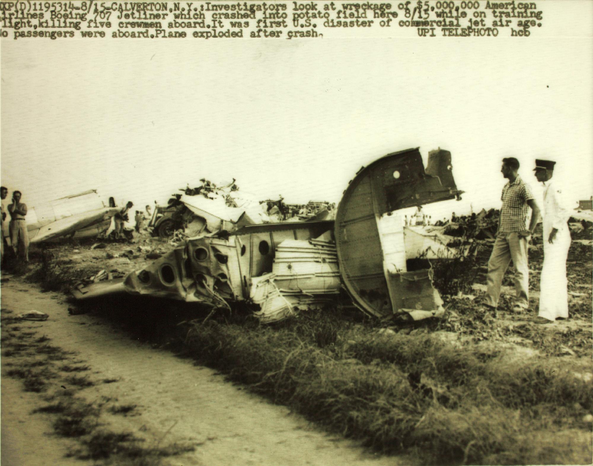 Investigators look at wreckage of $5,000,000 American Airlines Boeing 707 Jetliner which crashed into potato field here 8/15 while on training flight, killing five crewmen aboard. It was first U.S. disaster of commercial jet air age. No passengers were aboard. Plane exploded after crash.